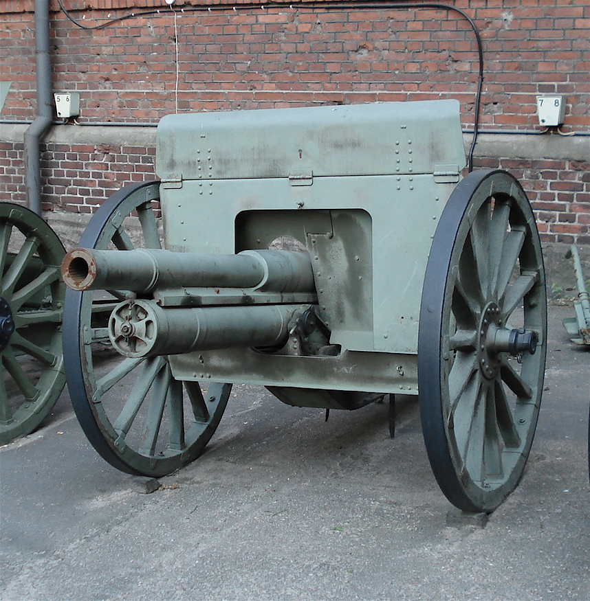 Russian 76.2 mm gun Model 1902, displayed in Helsinki Military Museum (Sotamuseo). Stamp on the barrel indicates this gun was manufactured in 1907. Photo taken on July 4, 2006. Source: Photo by me, User:Balcer.